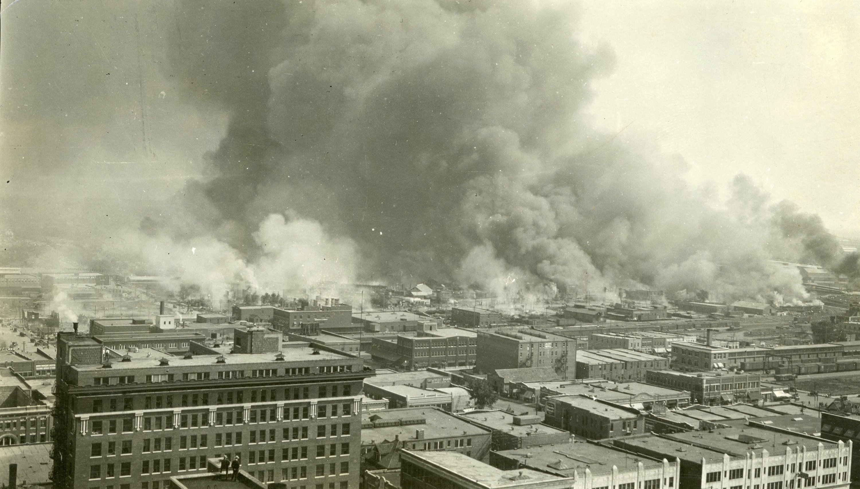 The "Little Africa” section of Tulsa, OK in flames during the 1921 race riot.